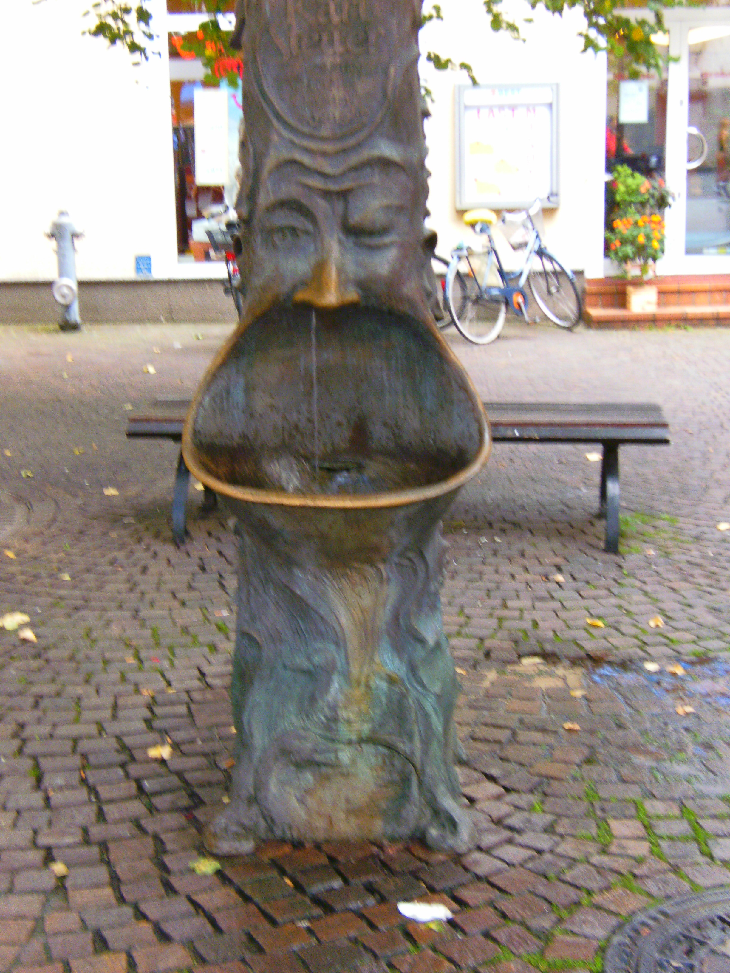 Karl-Steuer-Fountain in Konstanz, Germany, Wessenberg-/Zollernstraße. Front side with drinking water running out of the nose.